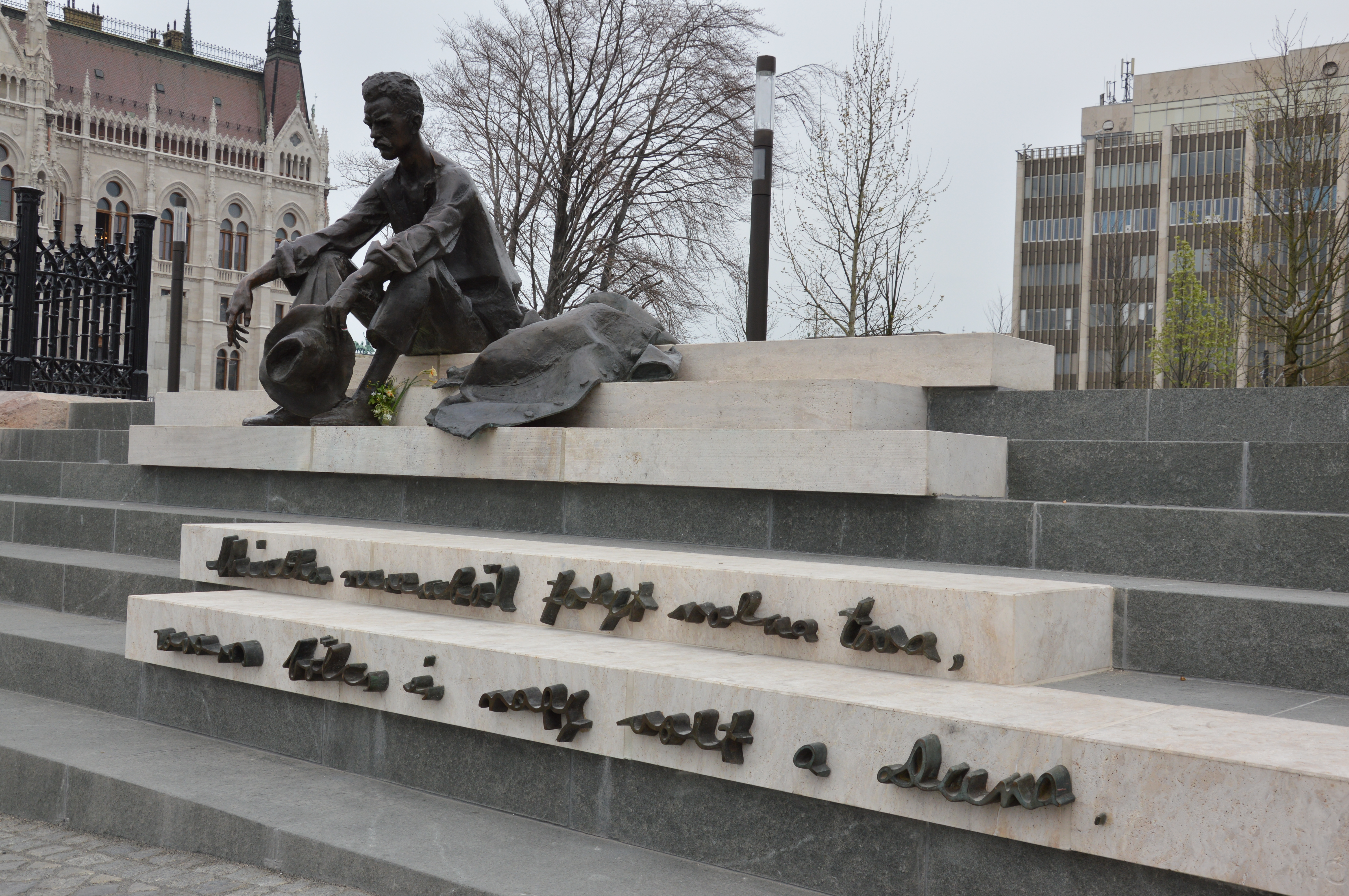 László Marton's statue of Attila József at its new location, overlooking the Danube from Kossuth Square, Budapest.